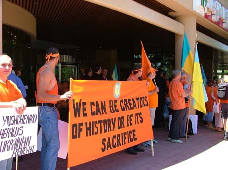 Demonstration in Canberra by the Ukrainian community, in support of the "Orange Revolution" in Ukraine.